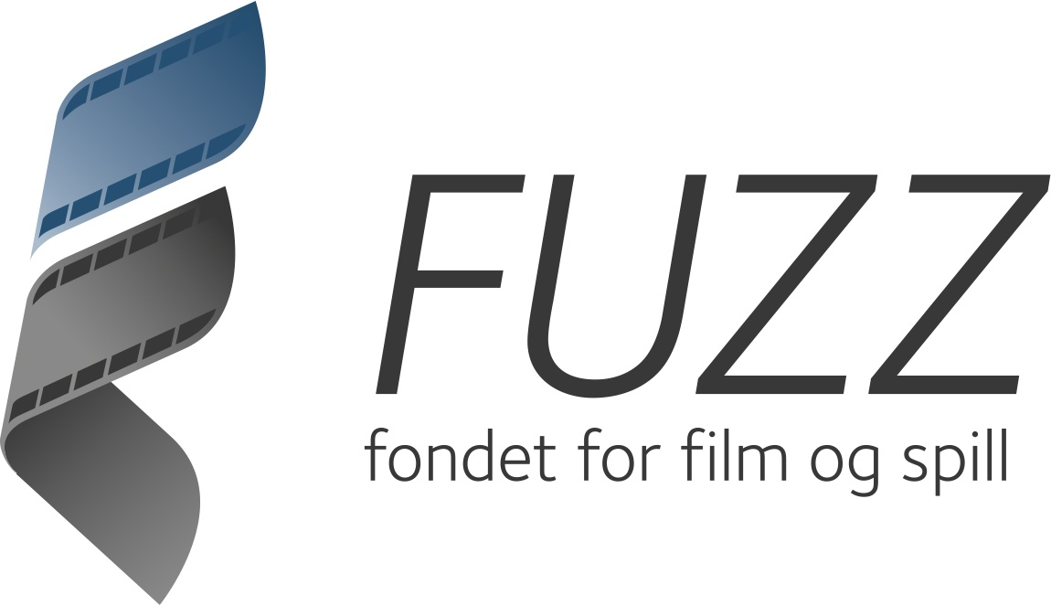 Company logo